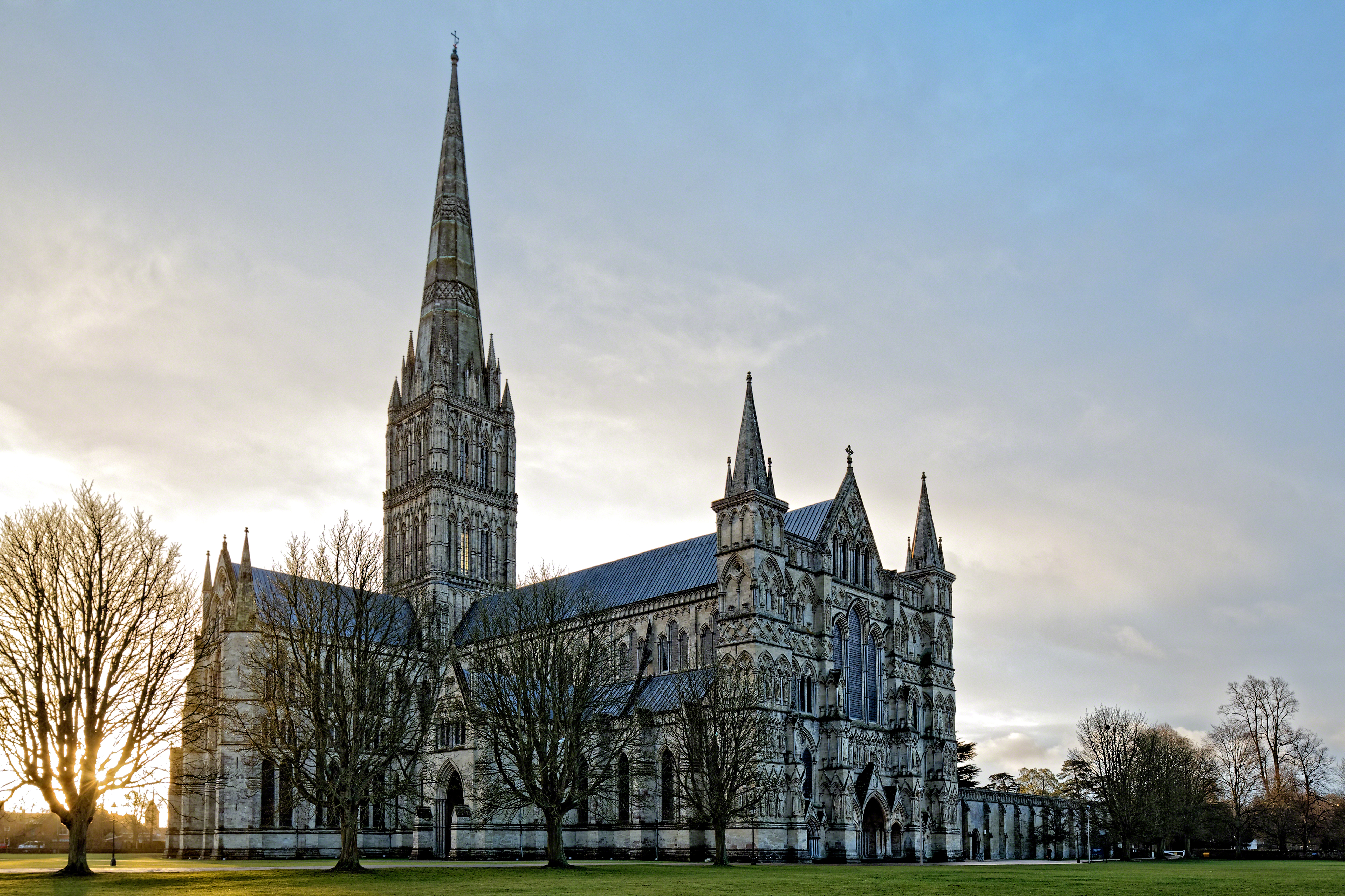 Salisbury Cathedral showing North Transept Spire North Porch West End & Cloister Wall. High resolution shot at dawn with tilt shift lens